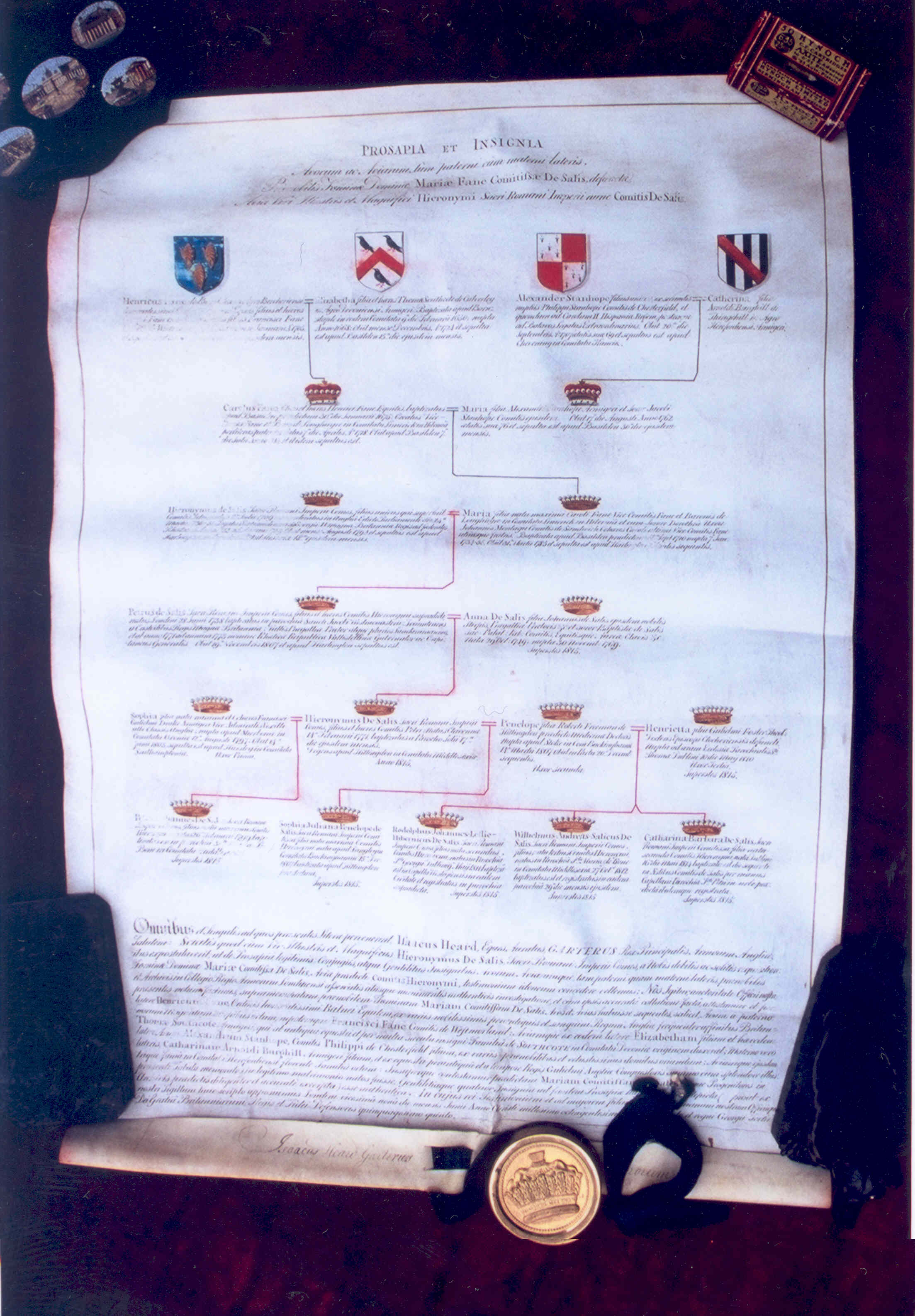 PROSAPIA et INSIGNIA. scan of photo (April 2006, R. de Salis) of ancestor scroll.Rodolph 12:51, 9 June 2007 (UTC)